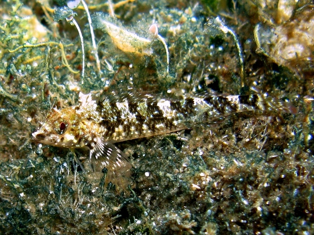 Female Tripterygion tripteronotum photographed in Sardinian waters (Italy). Photo by Roberto Pillon.